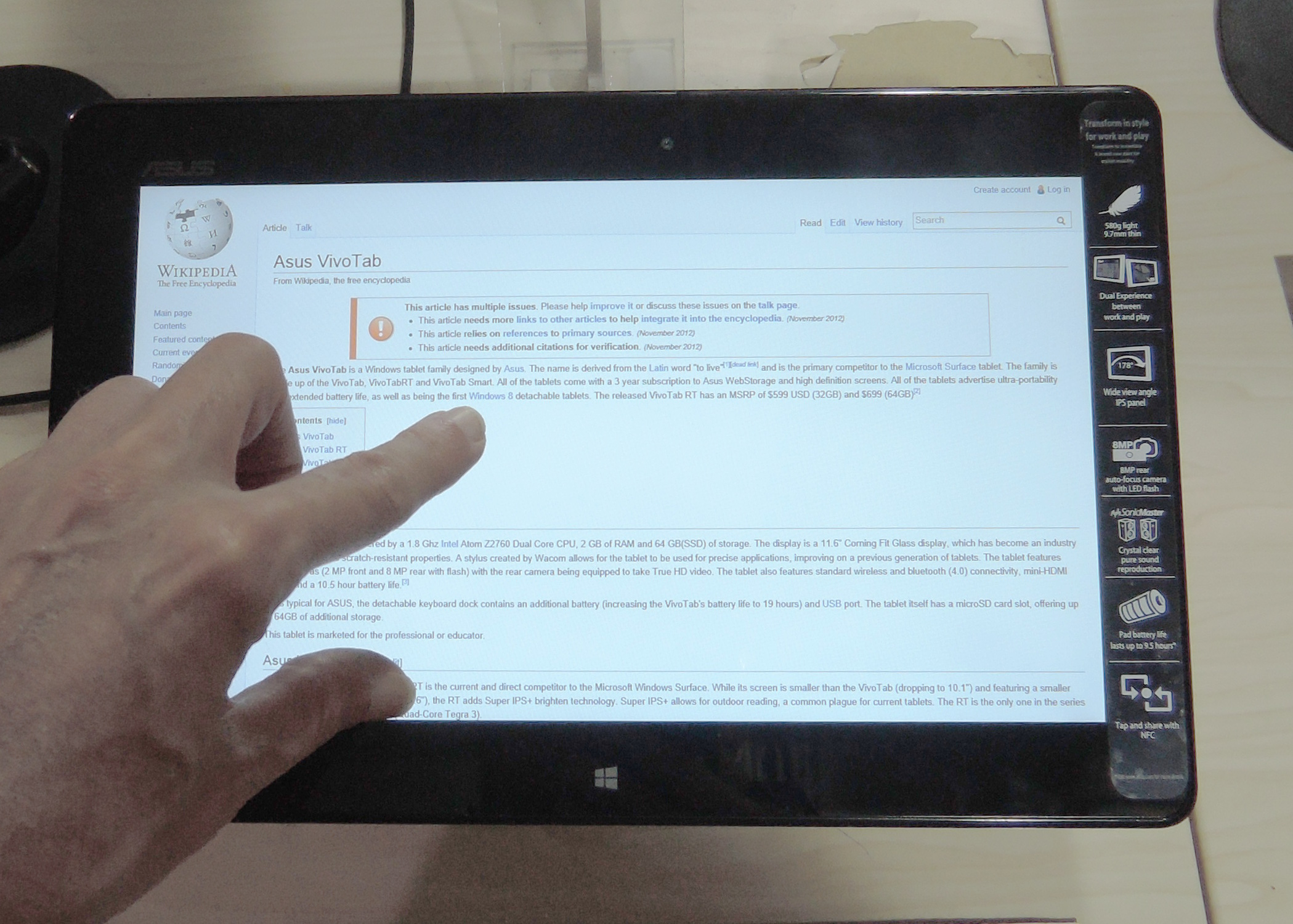 Vivo Tab.